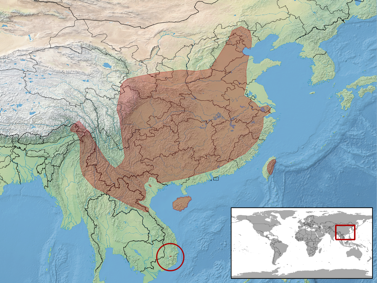 geographic distribution of Euprepiophis mandarinus (Native: China (Anhui, Beijing, Chongqing, Fujian, Gansu, Guangdong, Guangxi, Guizhou, Hainan, Hebei, Henan, Hubei, Hunan, Jiangsu, Jiangxi, Liaoning, Shaanxi, Shanghai, Shanxi, Sichuan, Tianjin, Tibet [or Xizang], Yunnan, Zhejiang); India (Arunachal Pradesh); Lao People's Democratic Republic; Myanmar; Taiwan, Province of China; Viet Nam)